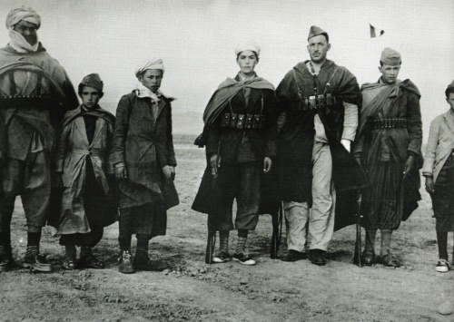 Adjoul & his family the moment he surrendered to the French colonial army.